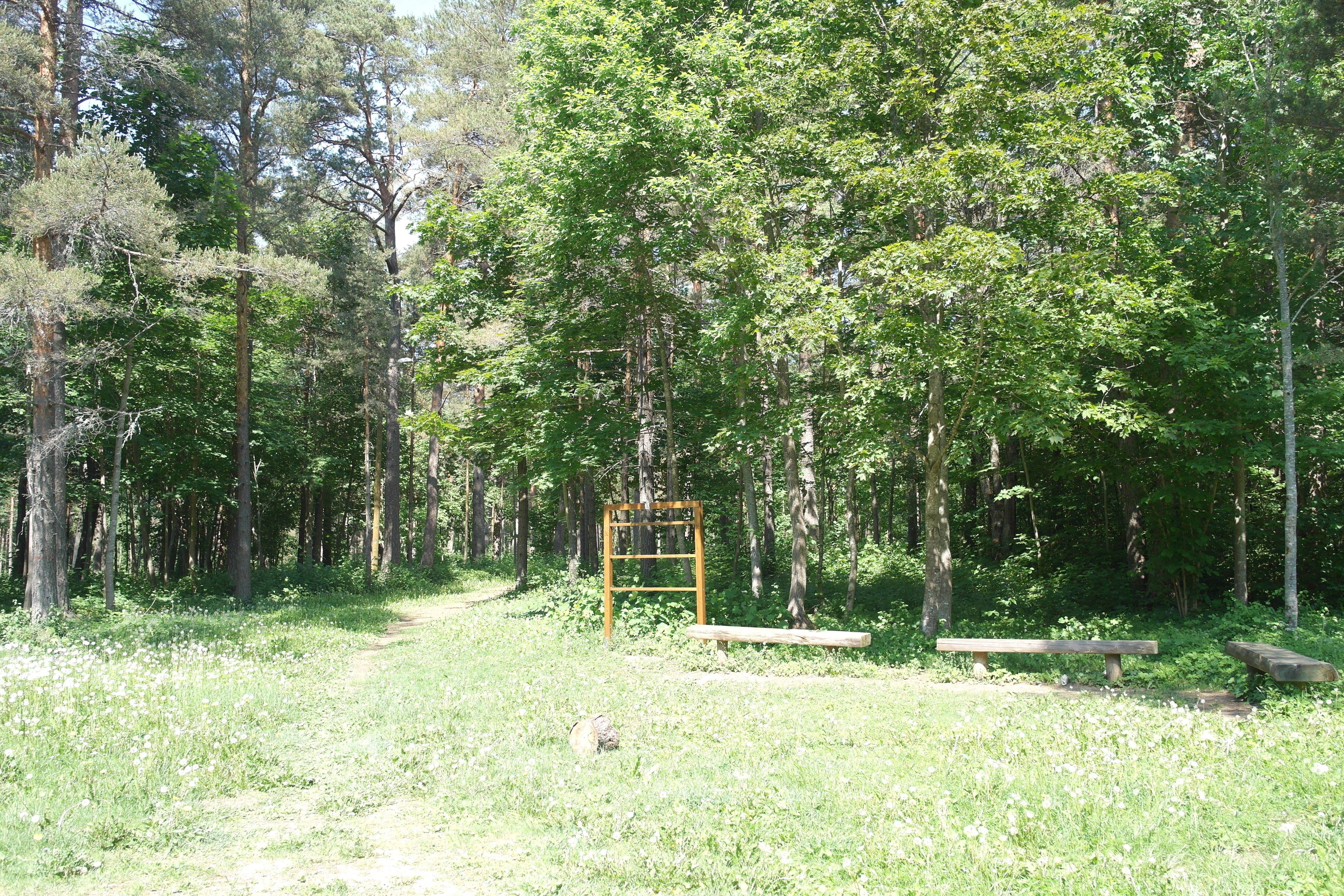 Aruküla health track beginning with benches and stretch wall.